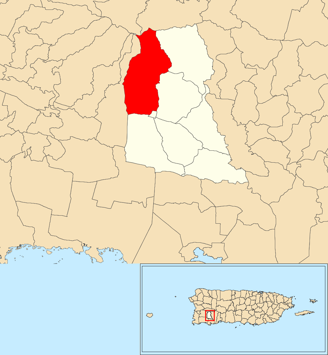 Santana, Sabana Grande, Puerto Rico locator map